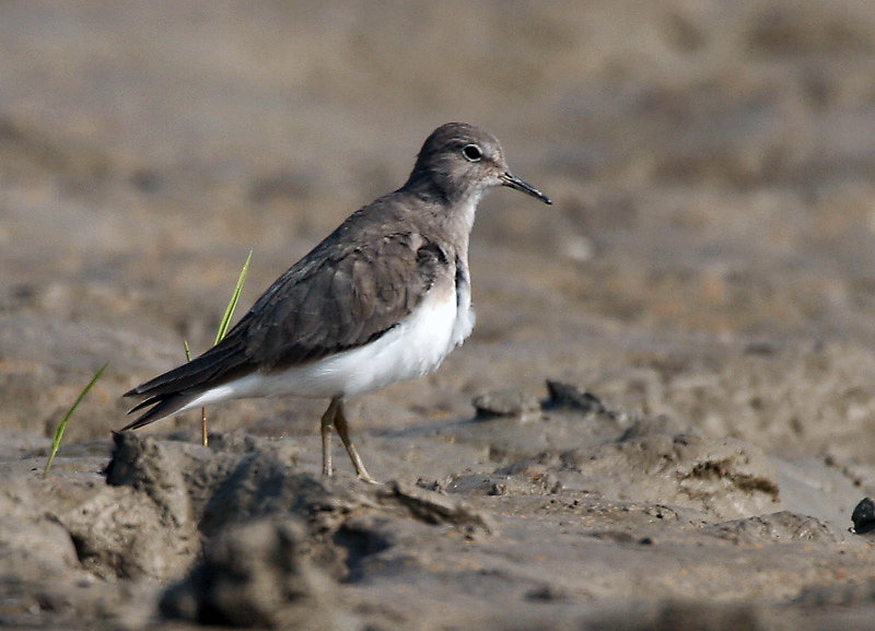 Temminck's Stint Calidris temminckii at Purbasthali in Bardhaman District of West Bengal, India.